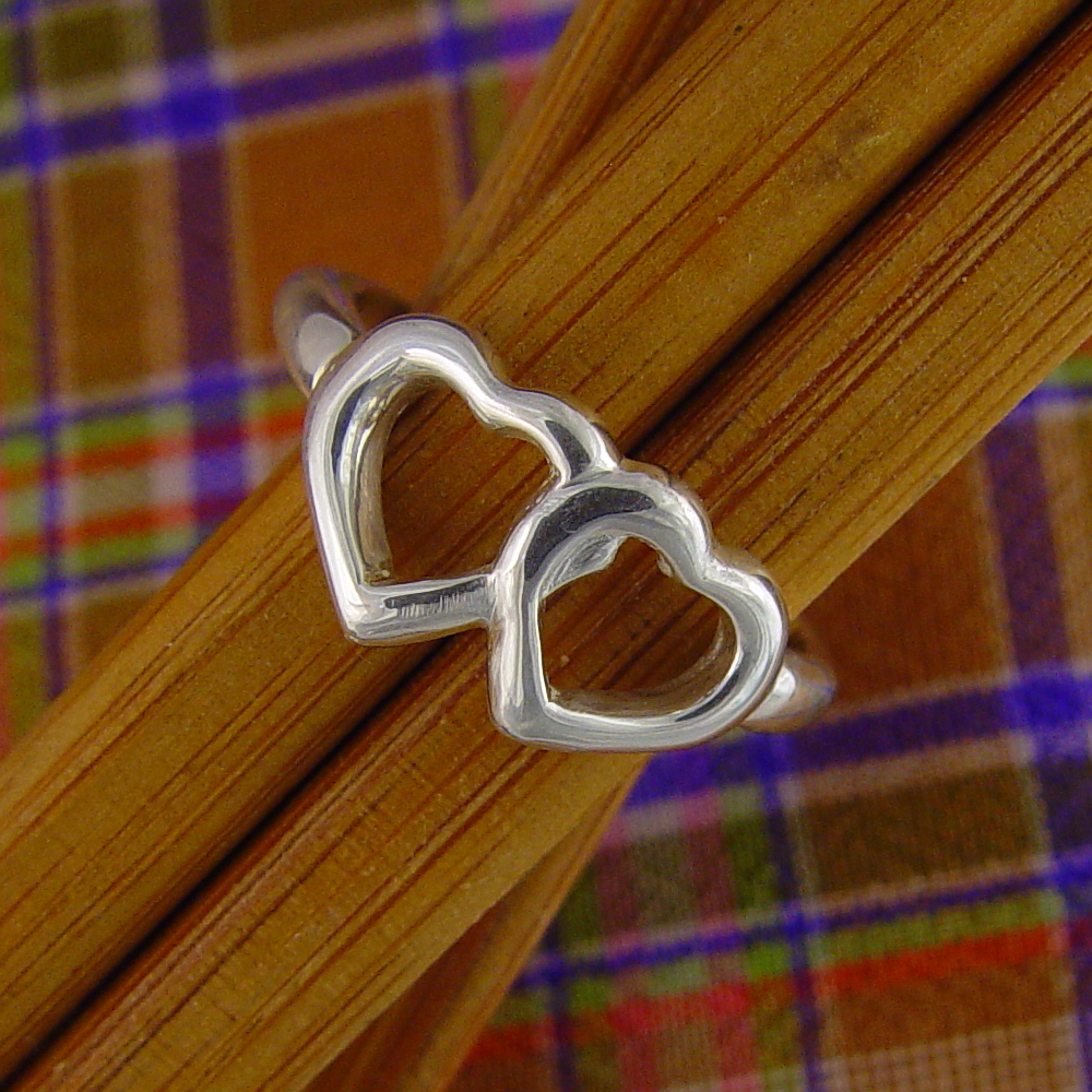 Photography taken by a Canadian jeweller